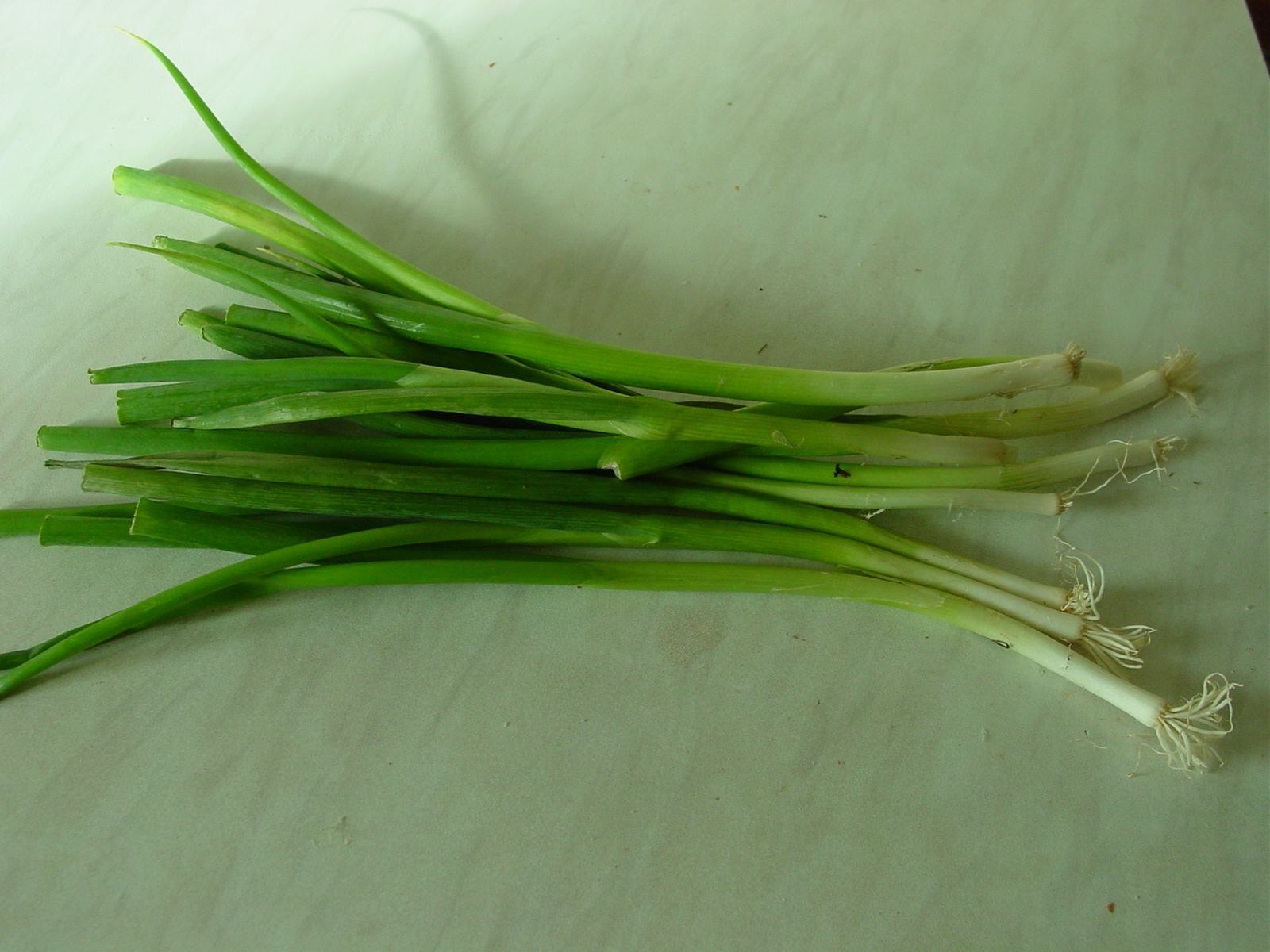 Spring Onion